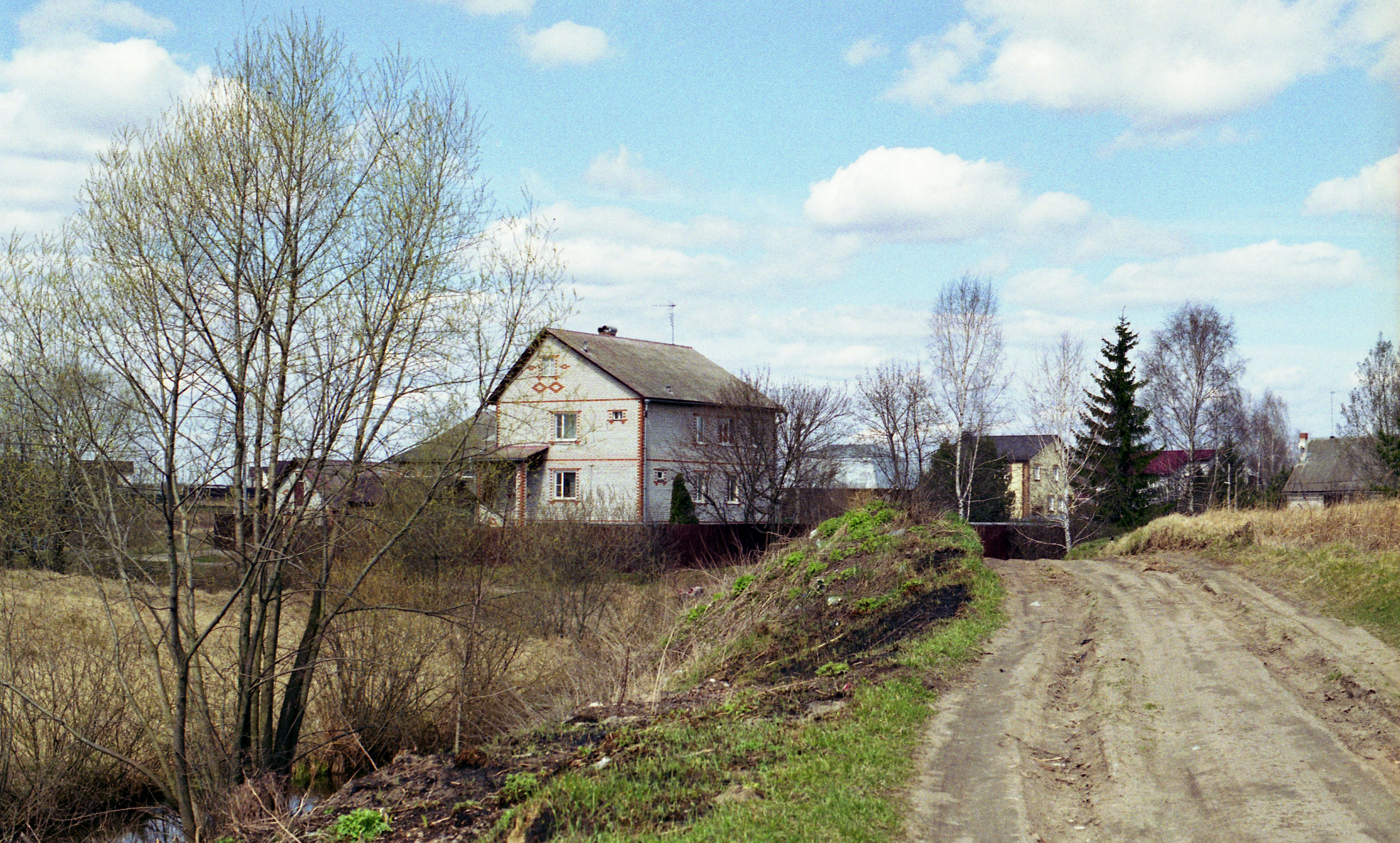 Starkovo Fuji Industrial 100 Ricoh KR-10X